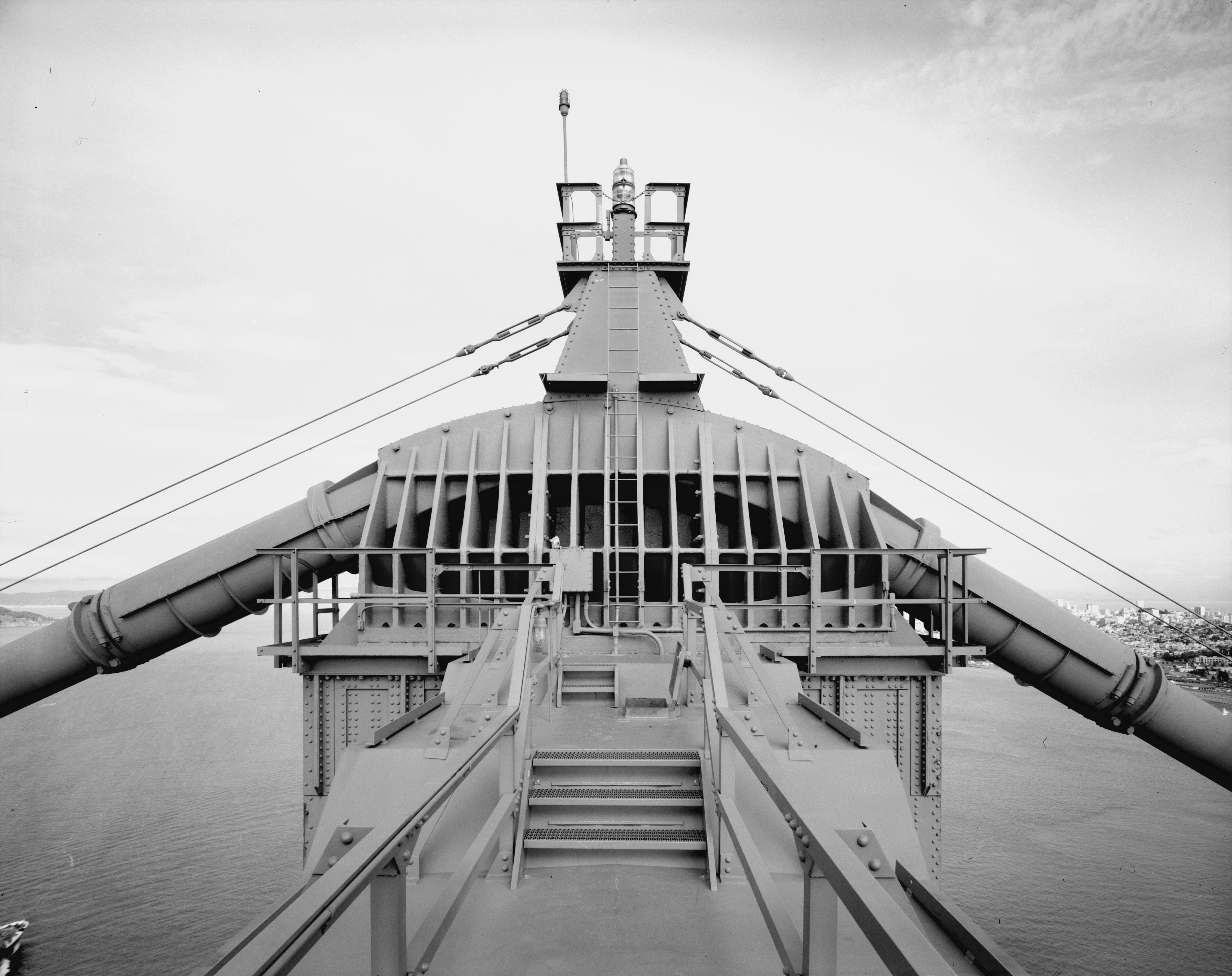 DETAIL VIEW OF CABLE SEAT ON TOP OF SOUTHERN TOWER. HAER—Historic American Engineering Record images of the Golden Gate Bridge.